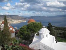 wiew from Agios Savas